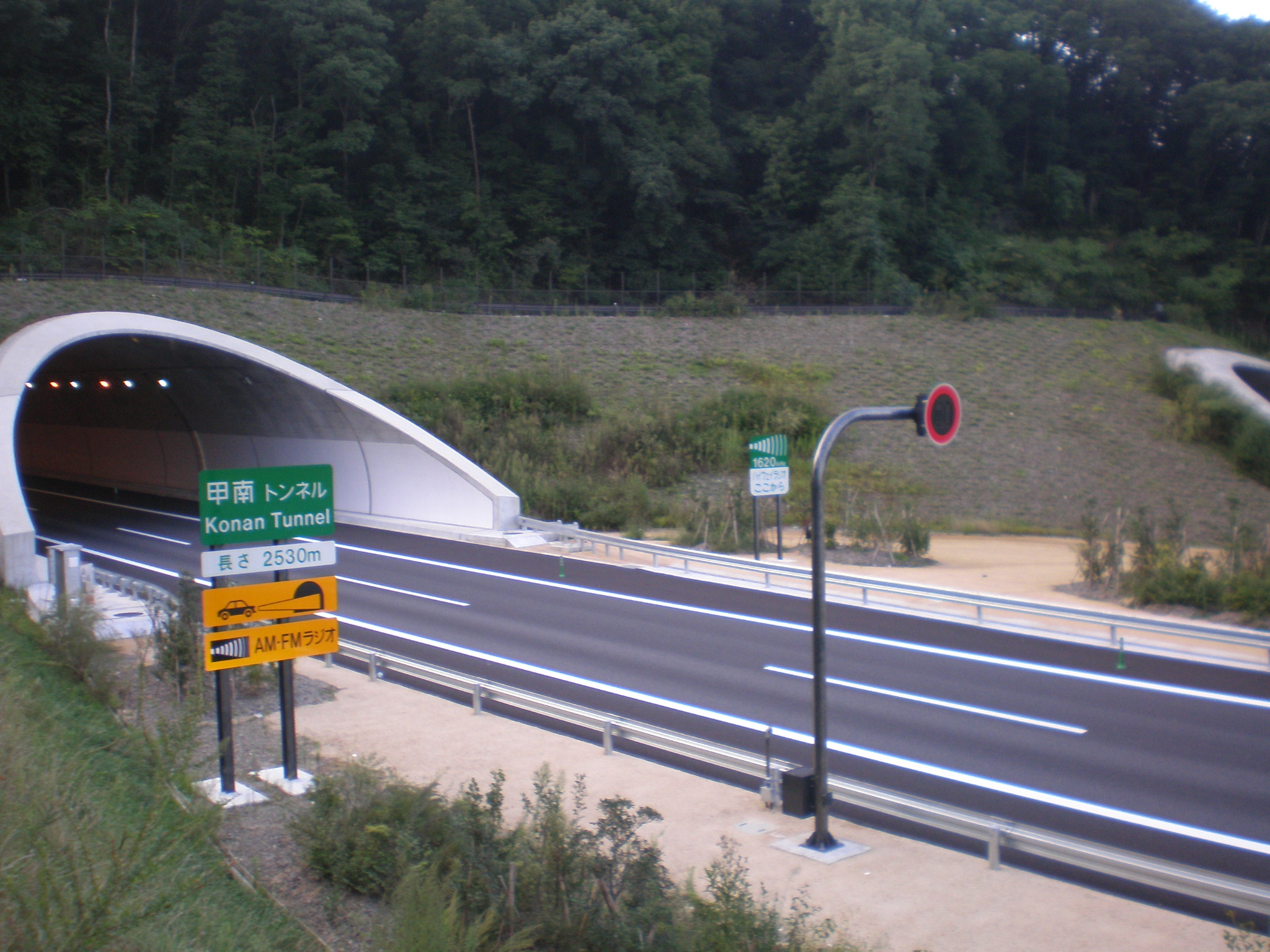 Konan tunnel